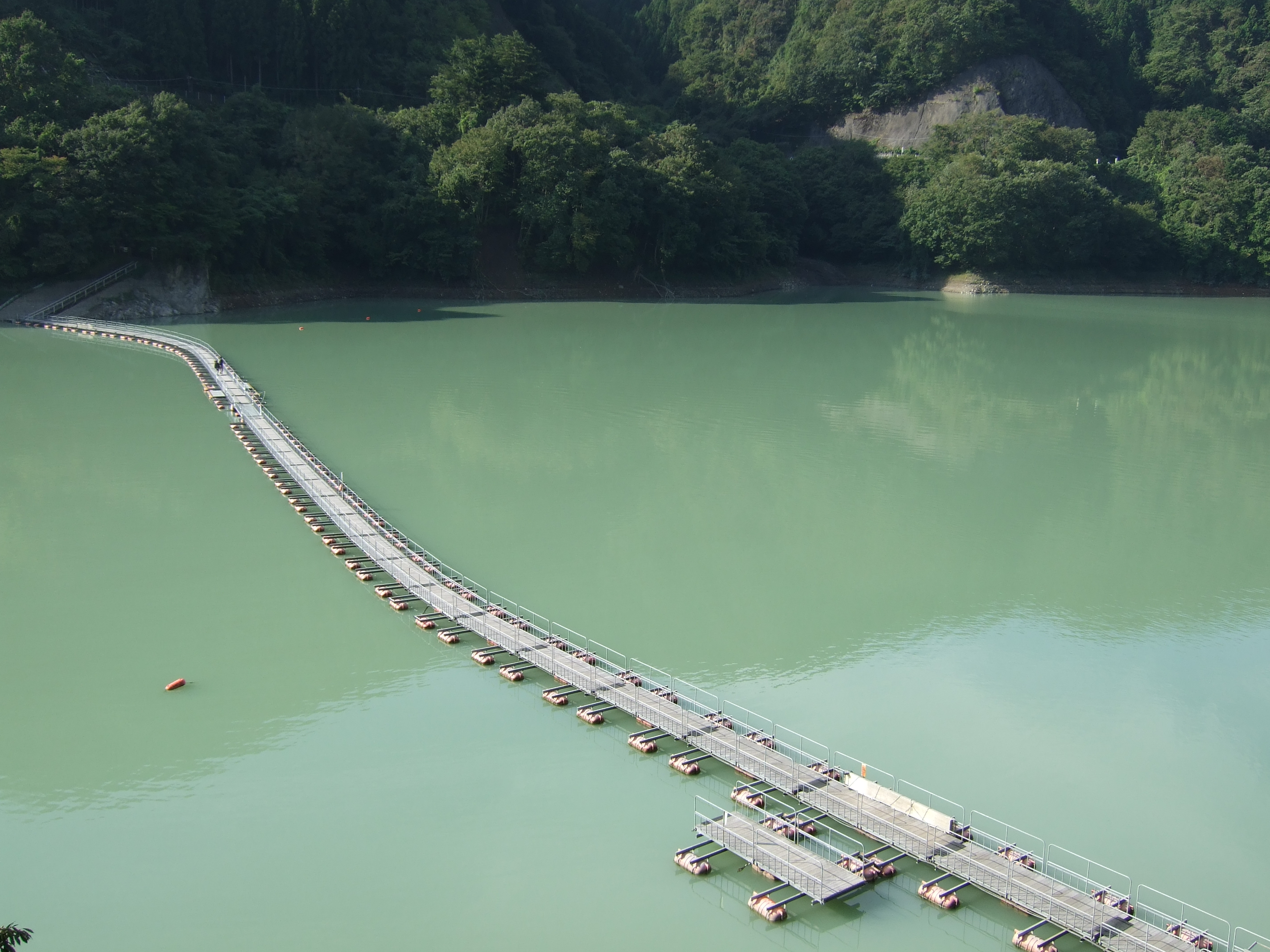 A bridge of Lake Okutama in Tokyo, Japan.